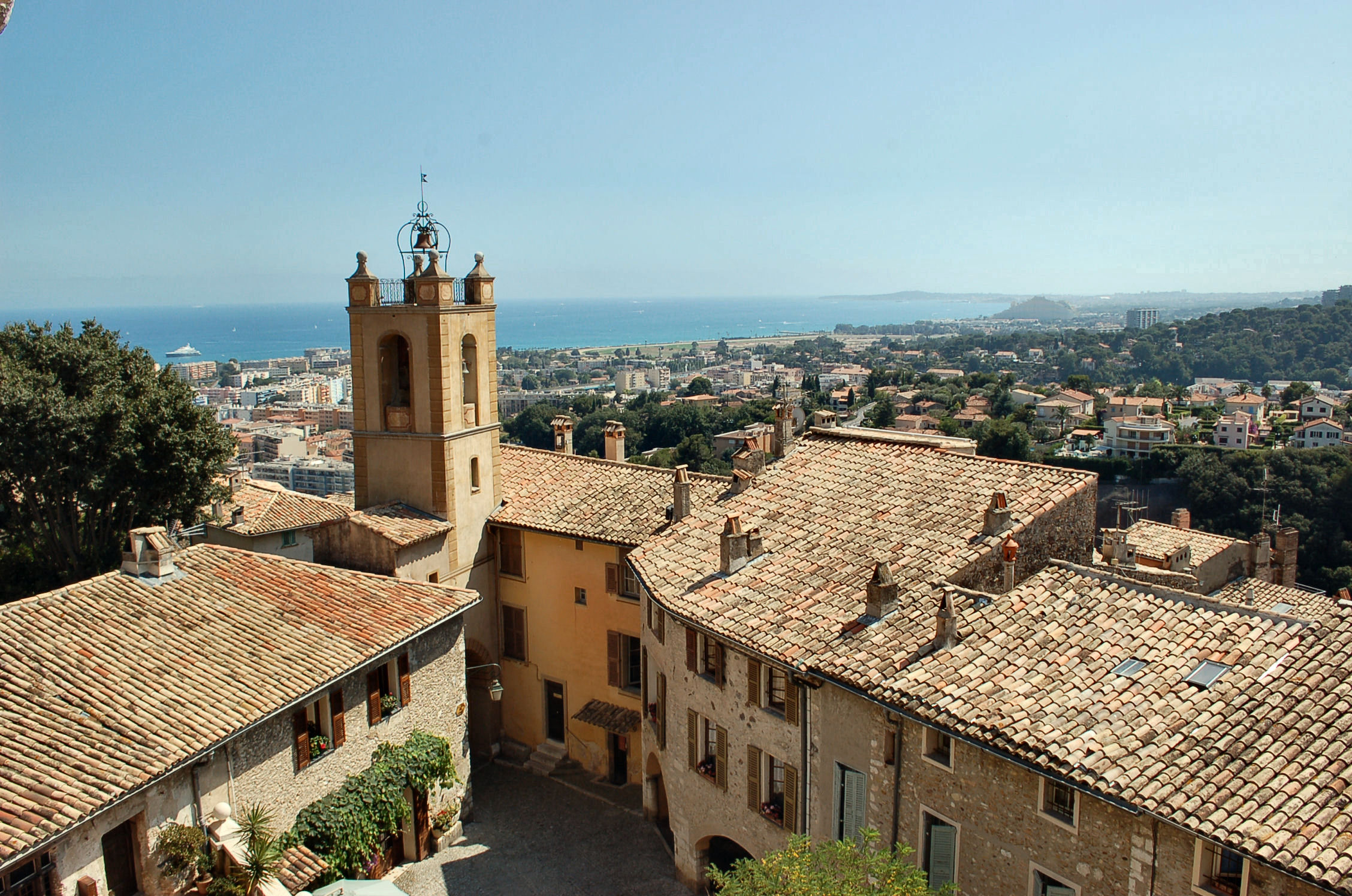 The old village of Haut-de-Cagnes as seen from the château - ISO code FR-PR-AM(06)